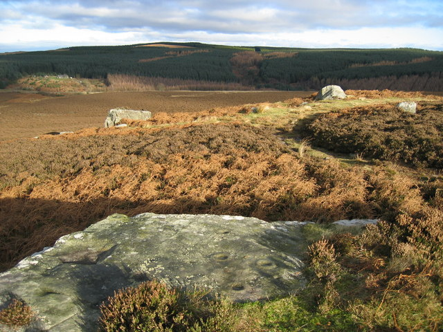 View NE towards Wellhope & Edlingham Woods from Cup & Ring marked outcrop